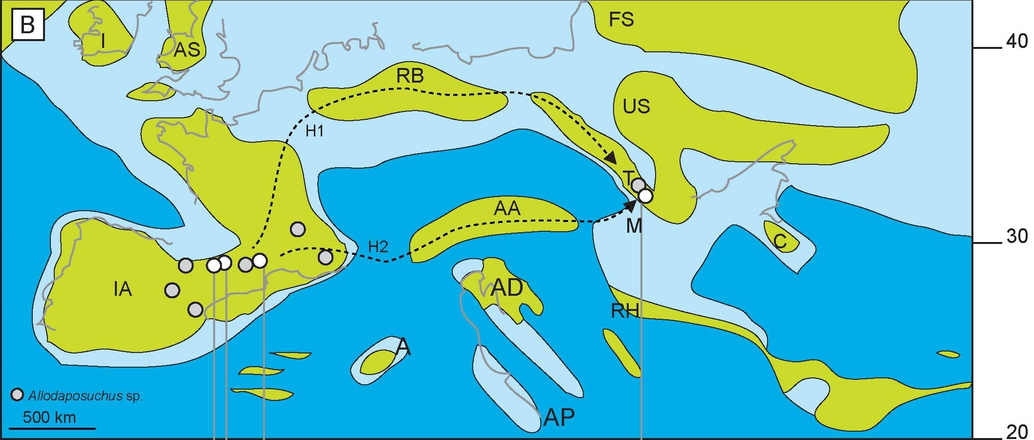 Paleogeography of Europe in the Maastrichtian - with Allodaposuchus fossil finds Page 29 of: Blanco, Alejandro (2014). "Allodaposuchus palustris sp. nov. from the Upper Cretaceous of Fumanya (South Eastern Pyrenees, Iberian Peninsula): Systematics, Palaeoecology and Palaeobiogeography of the Enigmatic Allodaposuchian Crocodylians". PLoS One 9: 1–34. Retrieved on 2018-05-24.